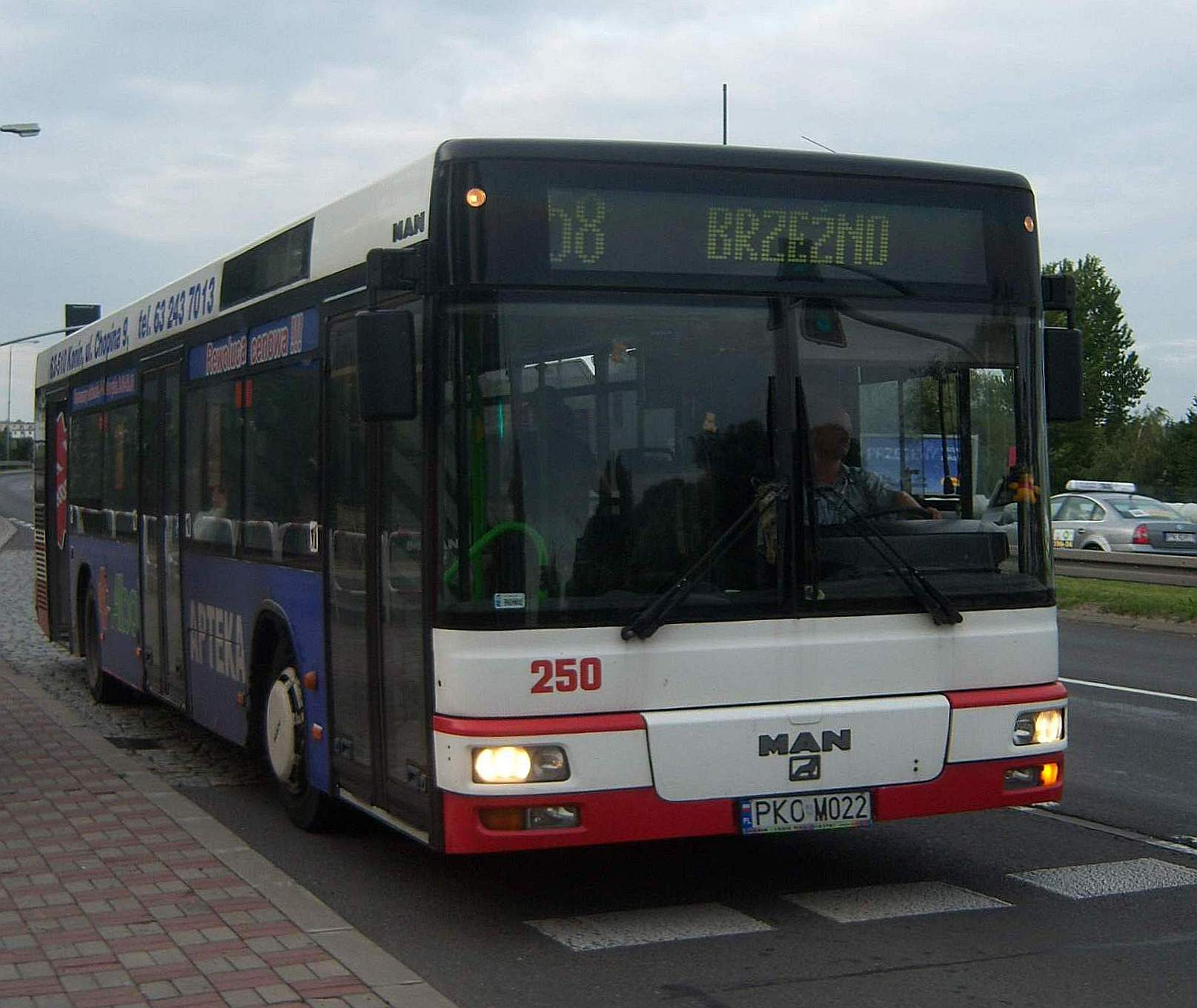 MAN NL223 bus (#250) in Konin, Poland (Line 58 - drive to Brzeźno). Built 2001, MZK Konin operator.